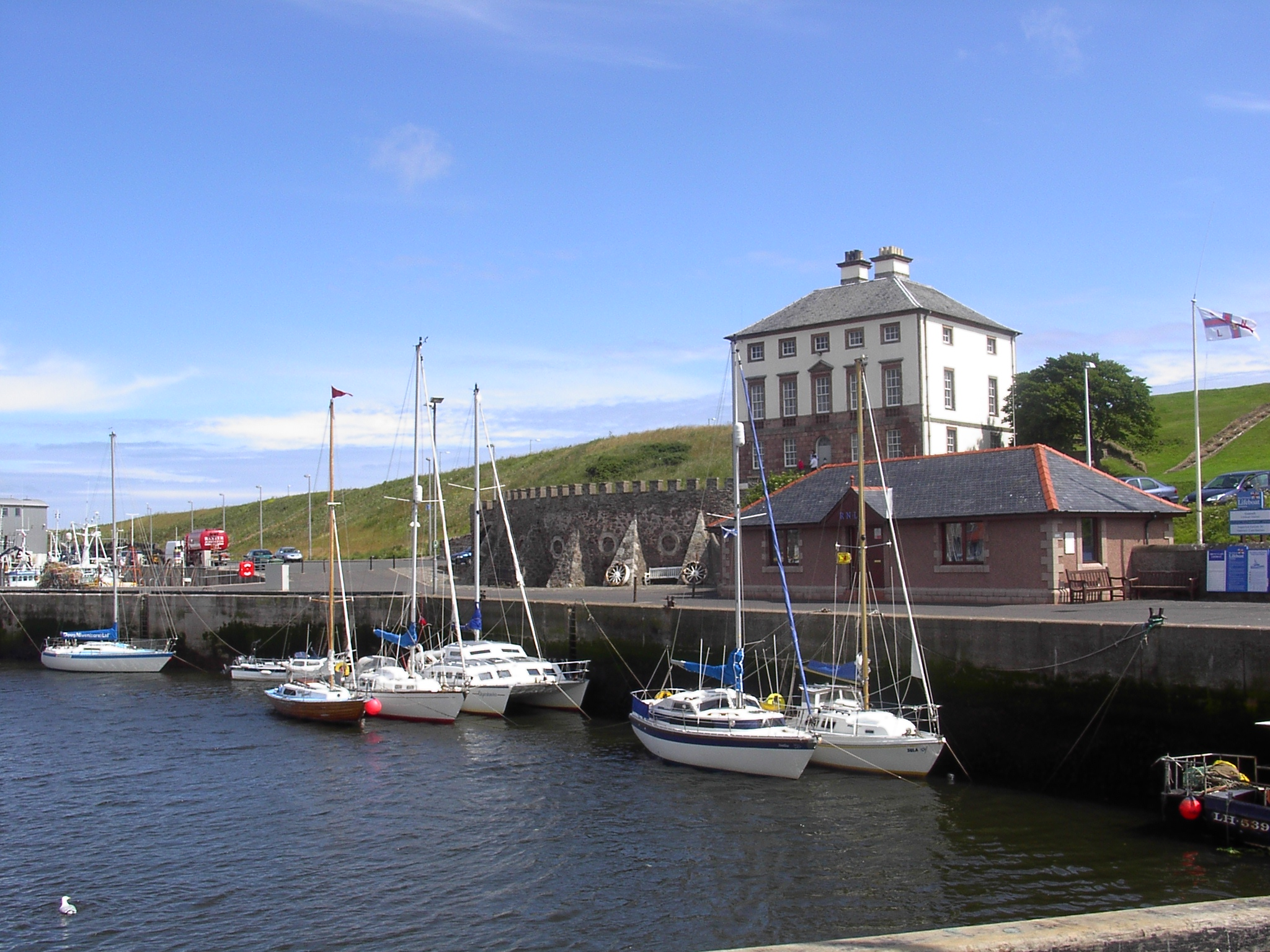 Yachts in Eyemouth Harbour with Gunsgreen house in the background